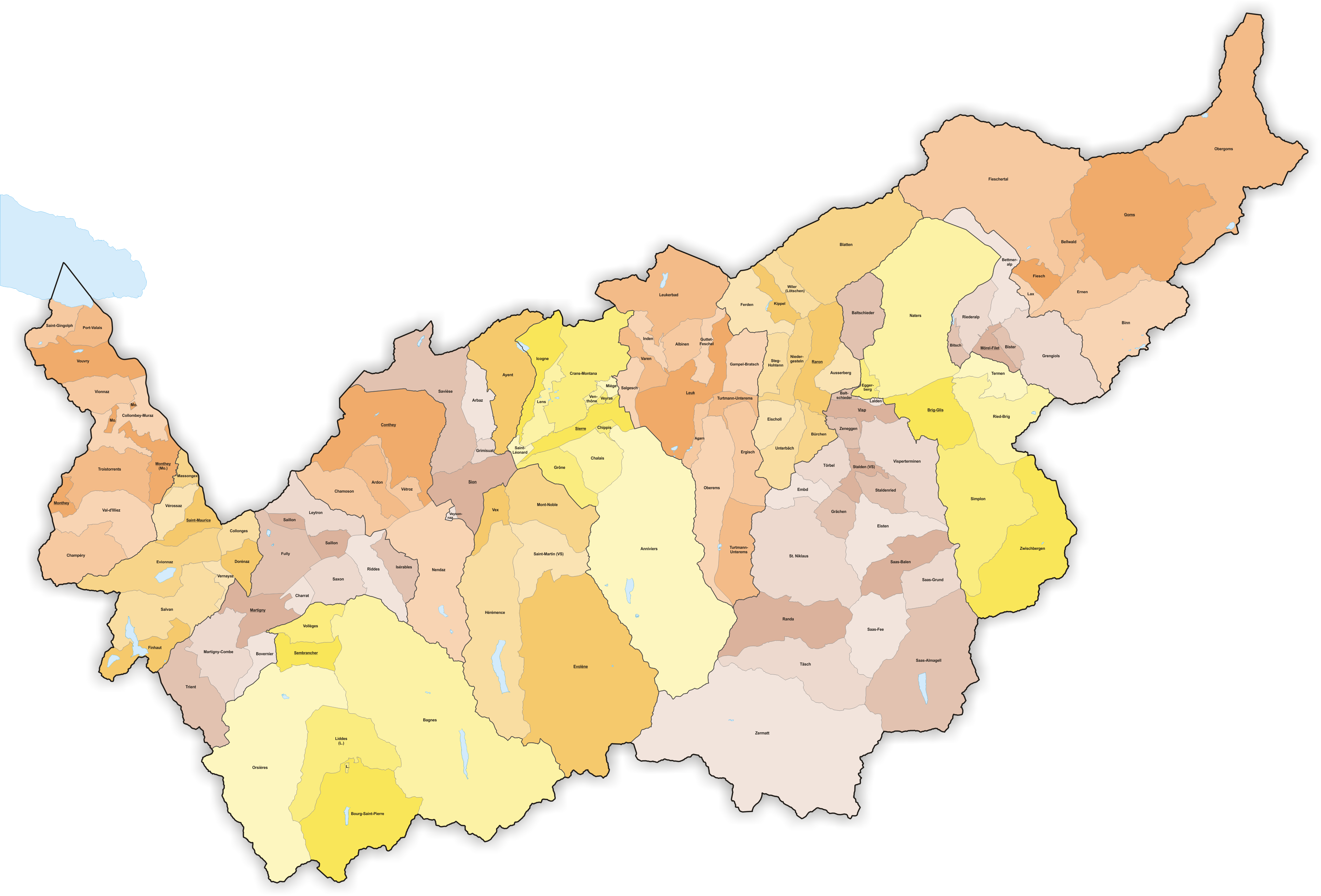 Municipalities in Canton Wallis